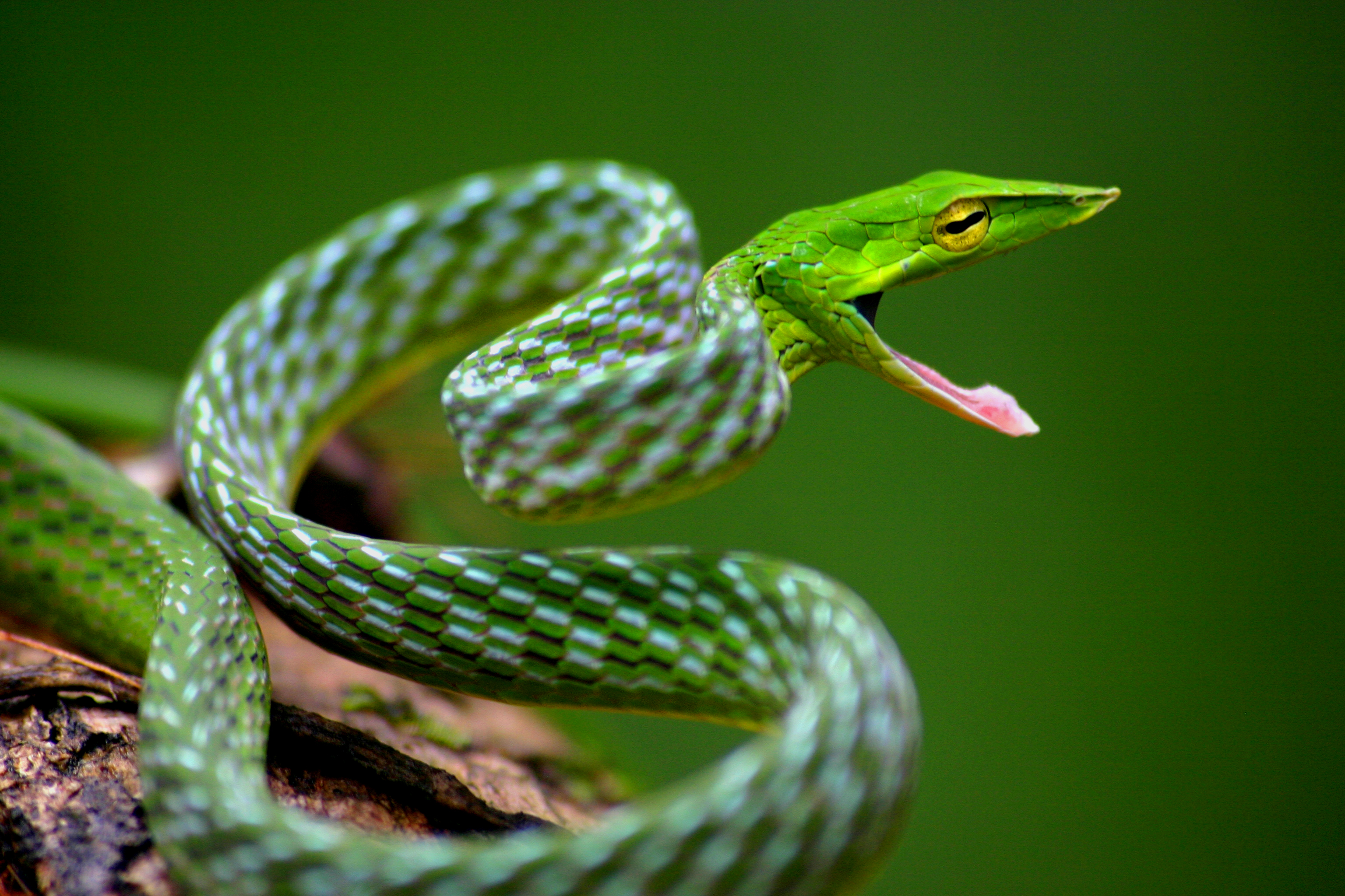 Reptiles from India